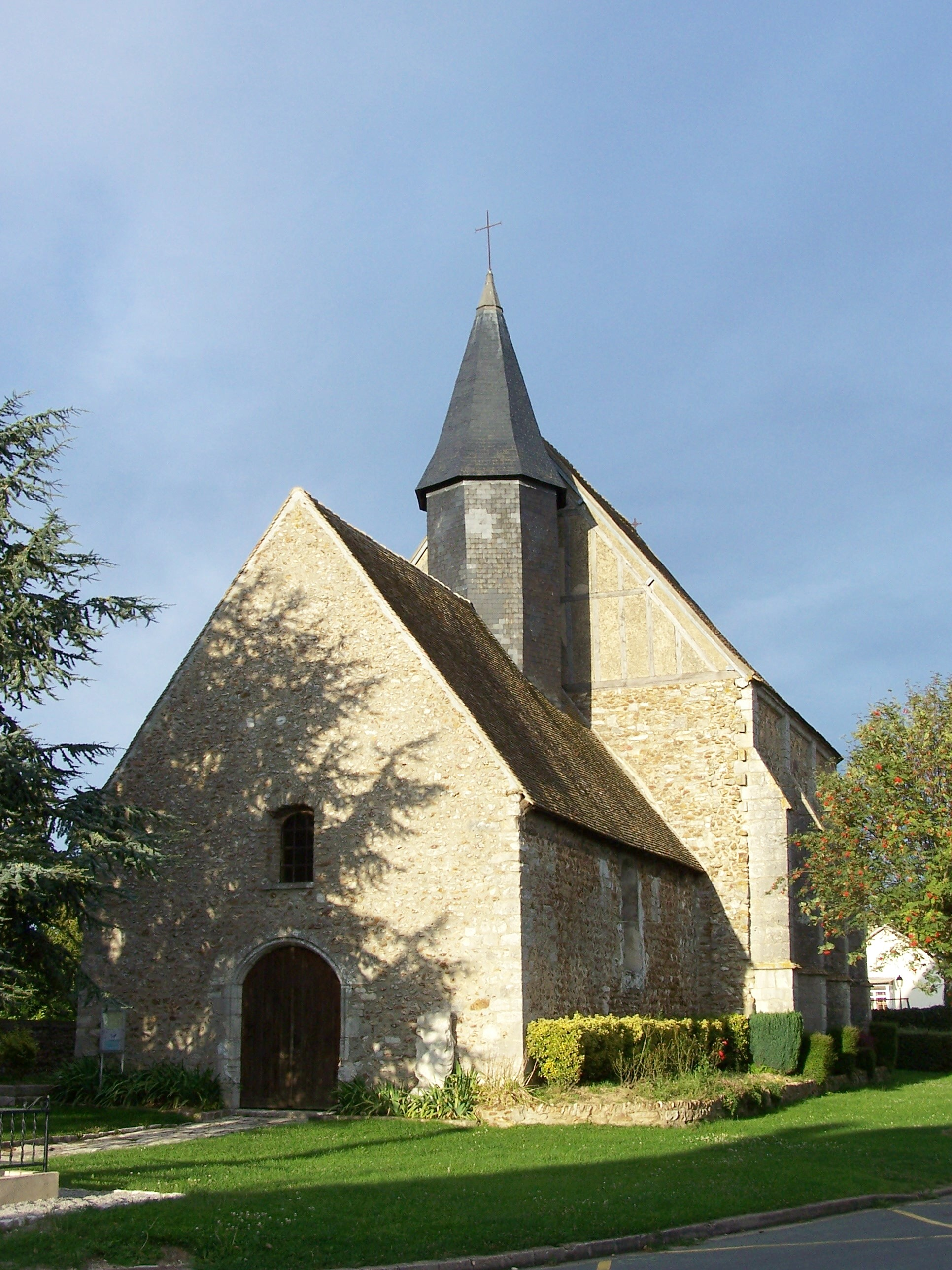 Church of Mondreville (Yvelines, France)